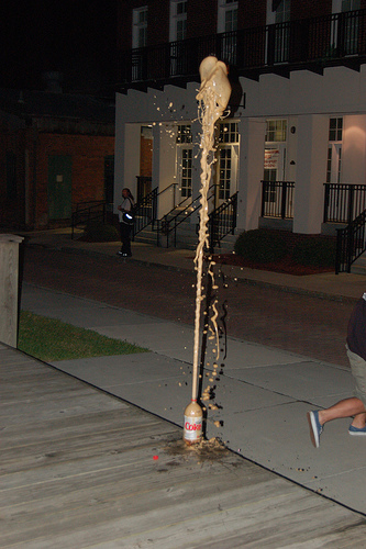 "Geyser" produced by immersing Mentos into Diet Coke